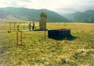 Wagon Box Fight monument.